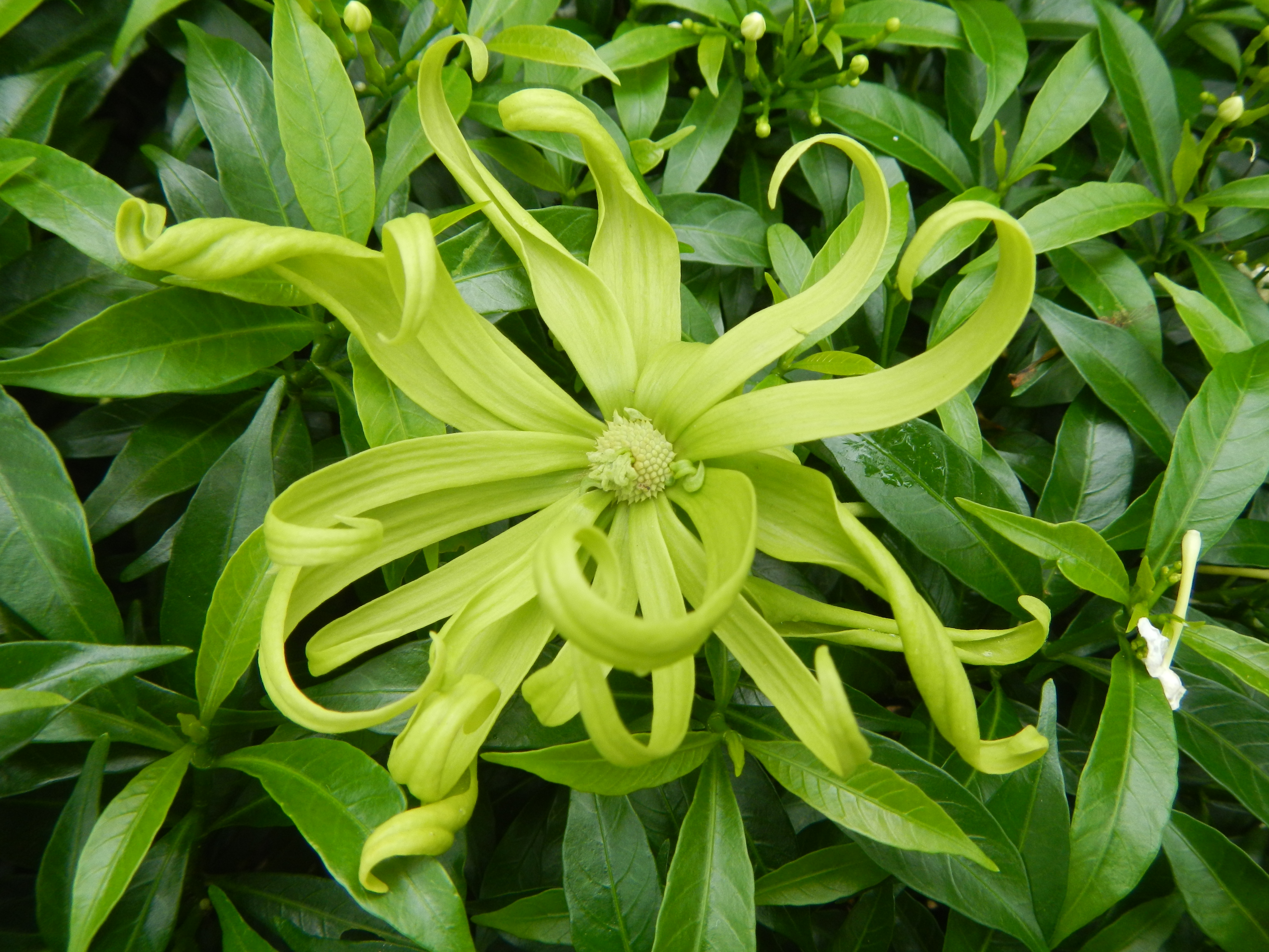 Cananga odorata Cangana odorata macrophylla Cannagium odoratum macrophylla yields Cananga oil, in San Juan de Dios Chapel (San Juan, Aliaga, Nueva Ecija) in [ Barangay San Juan, Aliaga, Nueva Ecija (beside Barangay Bucot, Aliaga, Nueva Ecija (from the Aliaga, Nueva Ecija Welcome Arch and Road sign from Zaragoza, Nueva Ecija - along Carmen, Zaragoza-Cabanatuan City, Nueva Ecija Road Km. 127+909 to Km. 140+918 gateway to Cabanatuan City Nueva Ecija and Town Proper of Aliaga, Nueva Ecija).